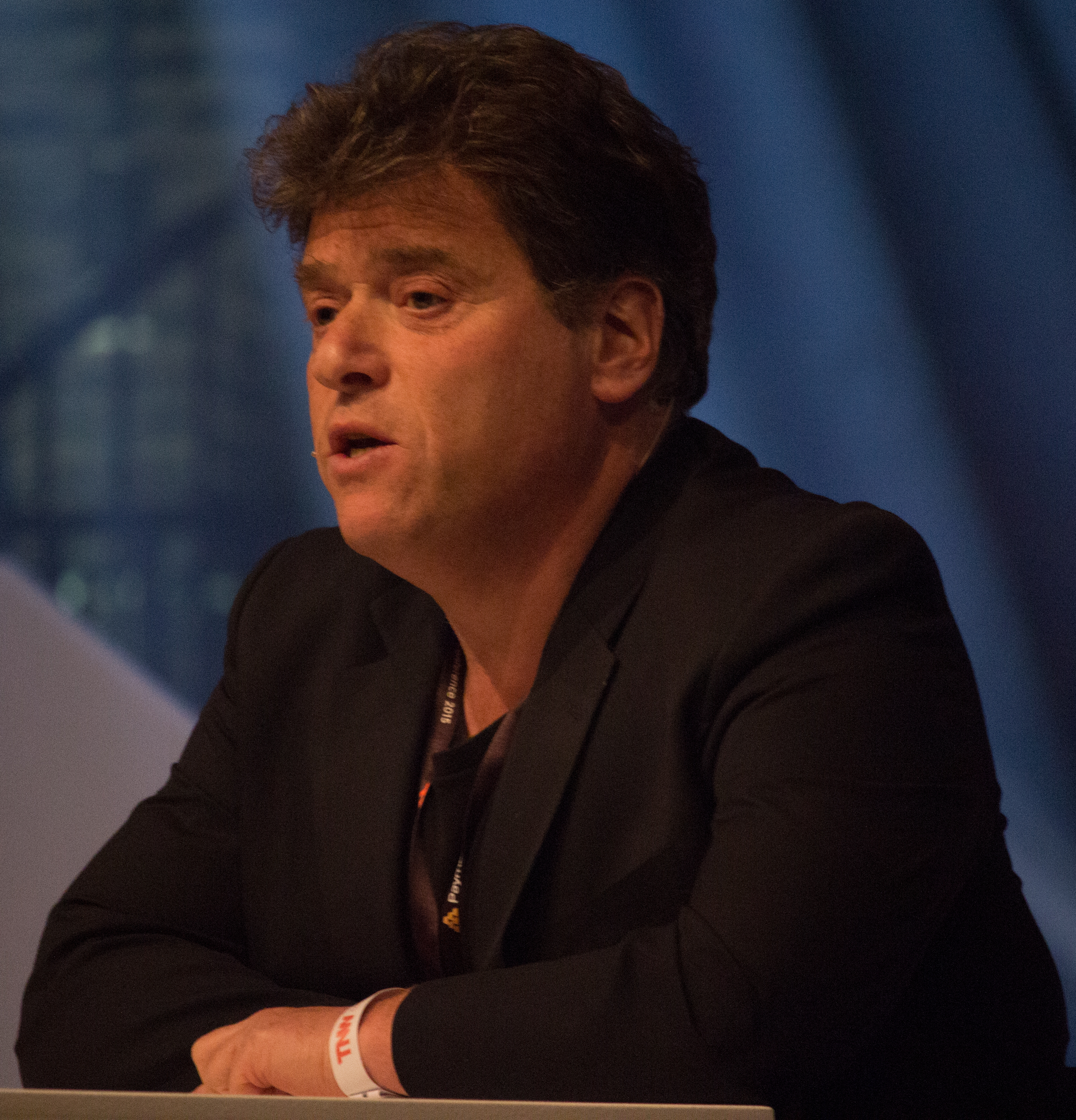 Andrew Keen speaking at TNW conference